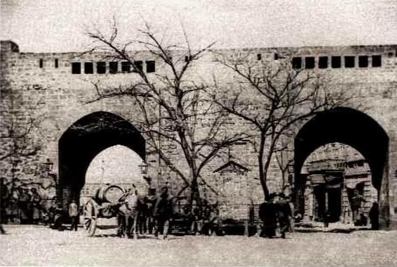 "Shemakha Gates" of Old Balu